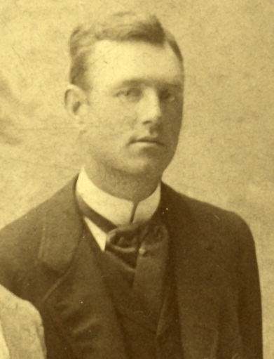 Pete Conway cropped from portrait 1891 Michigan Wolverines baseball team